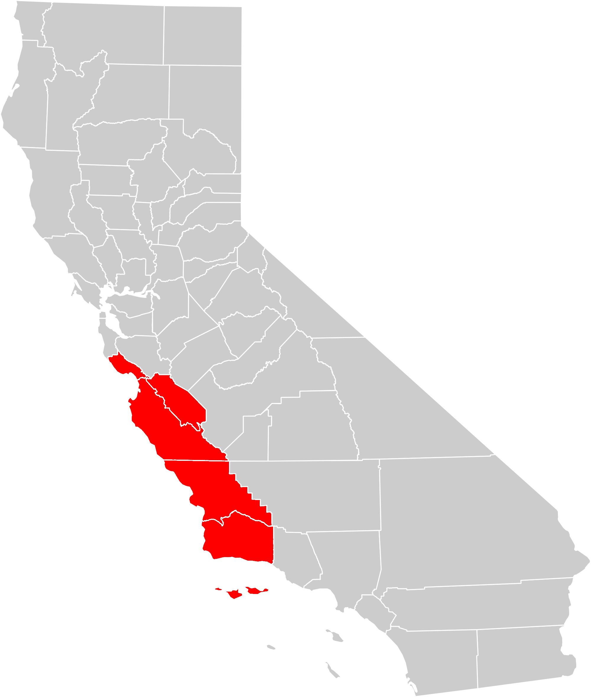 California Central Coast region. California map highlighting the counties included in the region of the Central Coast.